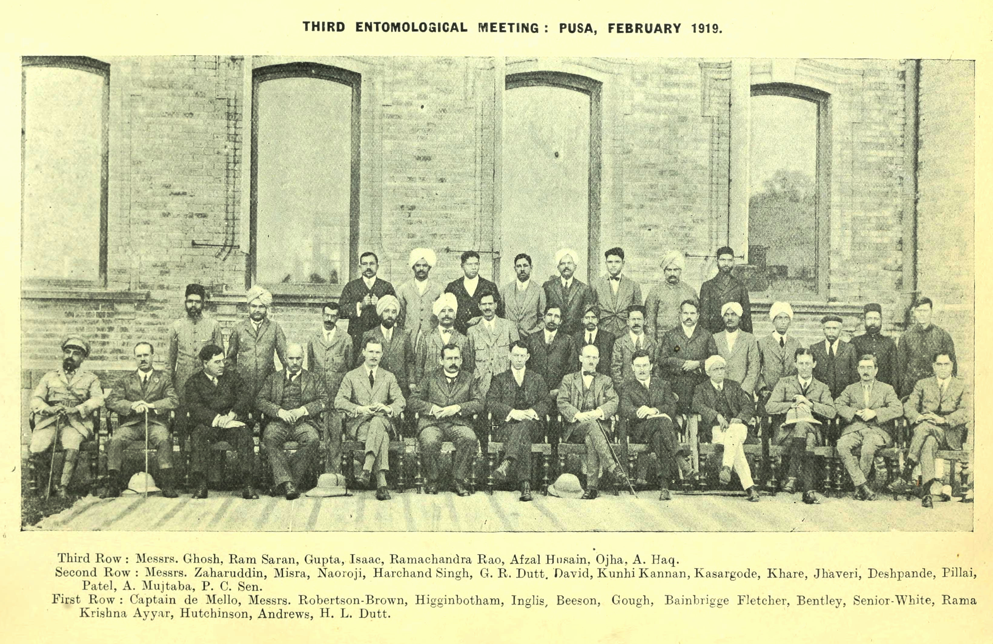 Entomologists at the third meeting in 1919 at Pusa Third row: C.C. Ghosh, Ram Saran, Gupta, P.V.Isaac, Y. Ramachandra Rao, Afzal Husain, Ojha, A. Haq Second row: M. Zaharuddin, C.S. Misra, D. Naoroji, Harchand Singh, G.R. Dutt, E.S. David, K. Kunhi Kannan, Ramrao S. Kasergode, J.L.Khare, Jhaveri, V.G.Deshpande, R. Madhavan Pillai, Patel, A. Mujtaba, P.C. Sen First row: Capt. Froilano de Mello, Robertson-Brown, S. Higginbotham, C.M. Inglis, C.F.C. Beeson, Gough, Bainbrigge Fletcher, Bentley, Senior-White, T.V. Rama Krishna Ayyar, C.M. Hutchinson, Andrews, H.L.Dutt